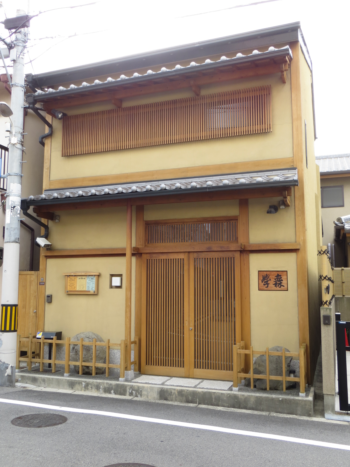 "Mugaku" (Rakugo (Vaudeville) Theatre). Sumiyoshi-ku, Osaka.